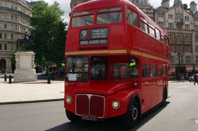 First London Routemaster bus RM1640 (reg. 640 DYE) operating London Buses heritage route 9, pictured in Trafalgar Square en-route to the Royal Albert Hall. Having arrived from the Strand to the east, it is rounding the roundabout in the south of the square, to exit west along Cockspur St on the other side. The 1633 bronze equestrian statue of Charles I of England by Hubert Le Sueur stands in the middle of the roundabout, to the left in the picture.